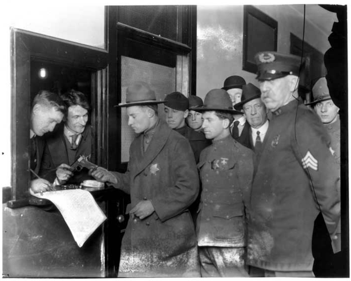 During the Seattle General Strike of 1919, the mayor added 600 men to the police force and hired 2,400 special deputies, students from the University of Washington for the most part. In the photo the newly hired deputies are receiving their weapons.